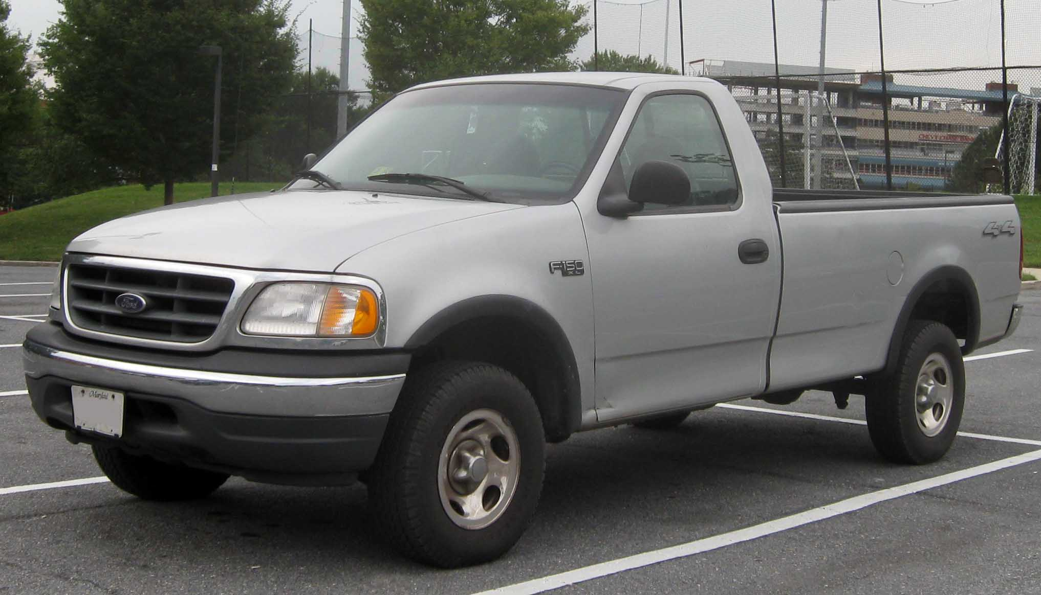 1997-2003 Ford F-150 photographed in College Park, Maryland, USA.